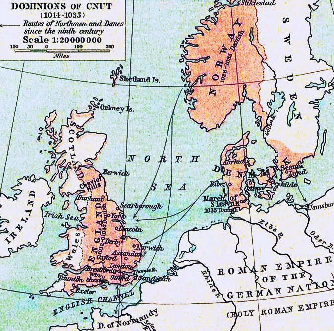 I doctored File:Cnut 1014 1035.jpg, in accordance with information on - - which states England is 1013-1042 with short interruptions ruled by the kings of Denmark. 1028 Canute the great also conquers Norway and a part of Sweden. User: WikieWikieWikie.